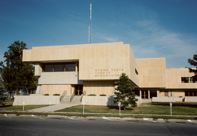 The Buena Vista County Courthouse in Storm Lake, Iowa was built in 1970.